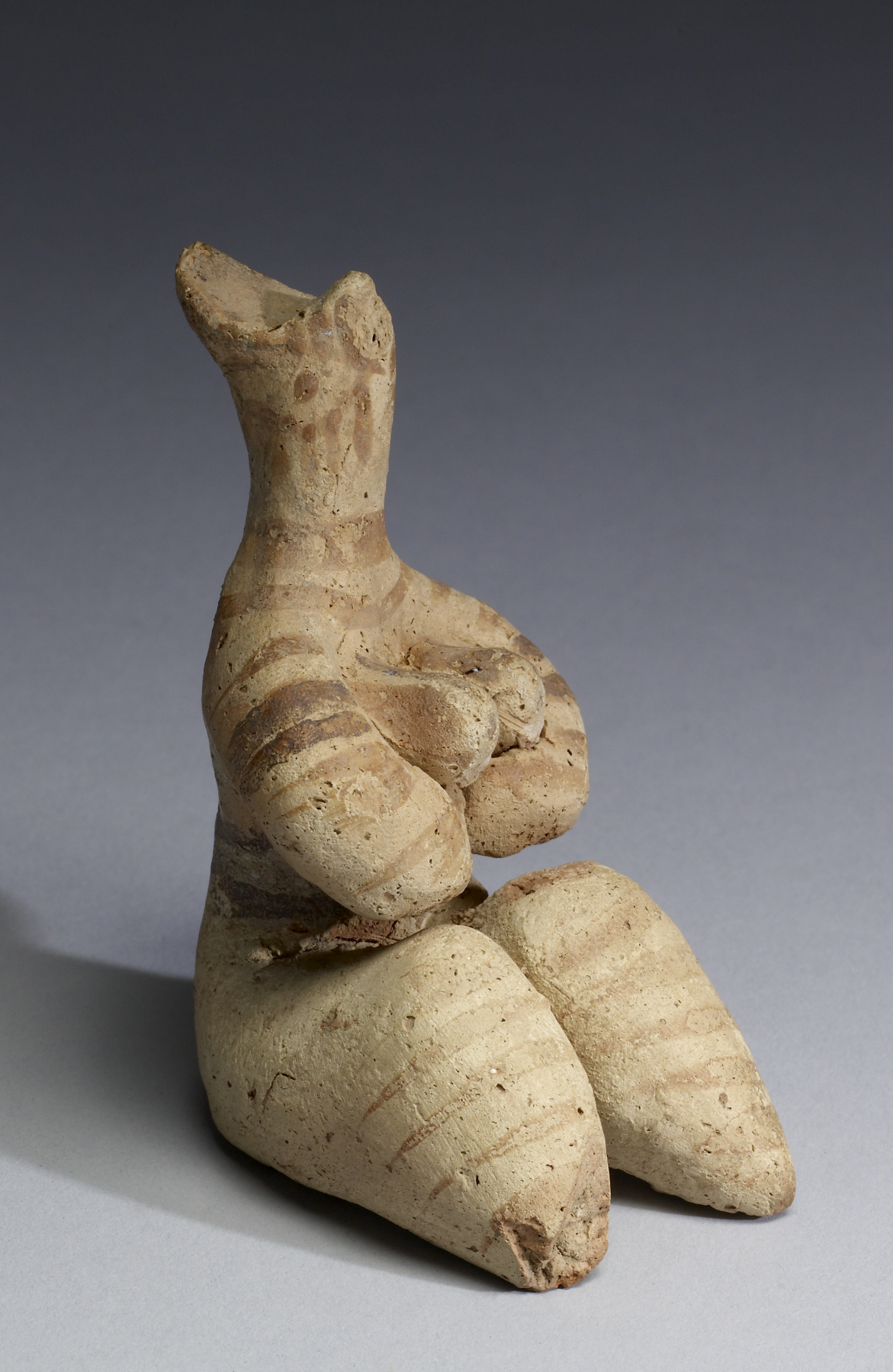 As early as the 7th millennium BC, cultures in the Near East began to create organized settlements with well-developed religious and funerary practices. The Halaf culture of Anatolia (central Turkey) and northern Syria arose around 5000 BC and produced remarkable female figurines with distinctive fertility attributes. This statuette is seated with legs extended, her arms cradling her protruding breasts. Bands of pigment emphasize the full, rounded forms of her limbs and suggest facial features, a necklace, and loincloth.